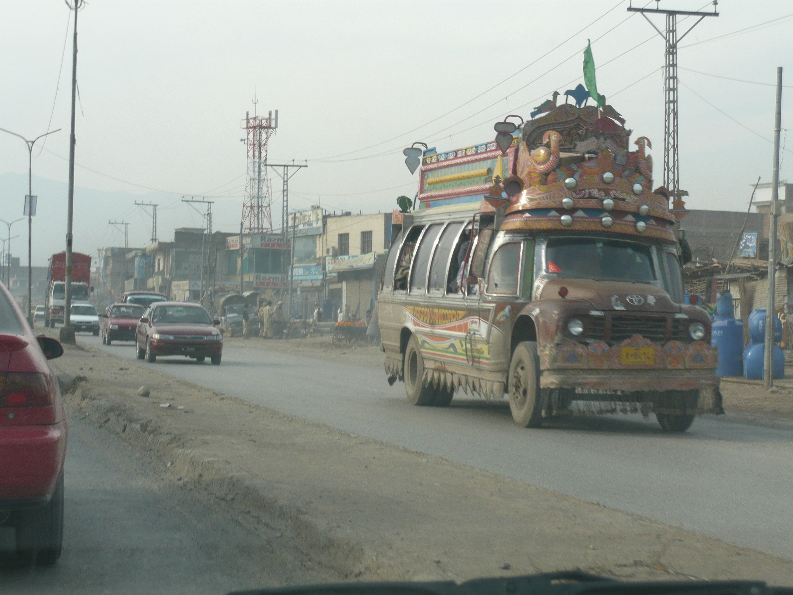 A truck on Pakistan roadway in Peshawar